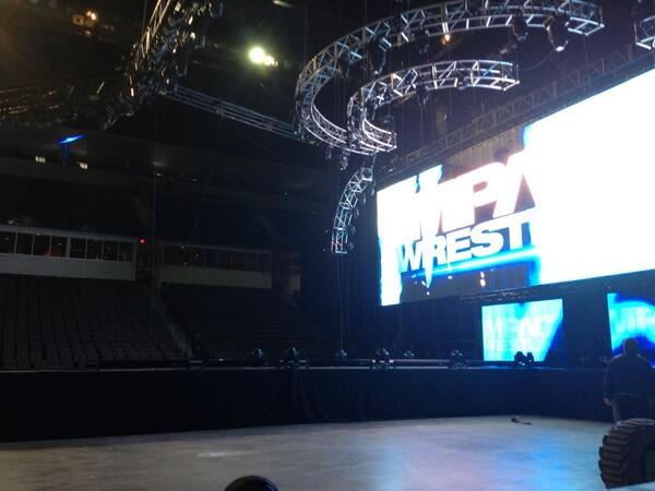 BFVcpfHCUAAU_ZK